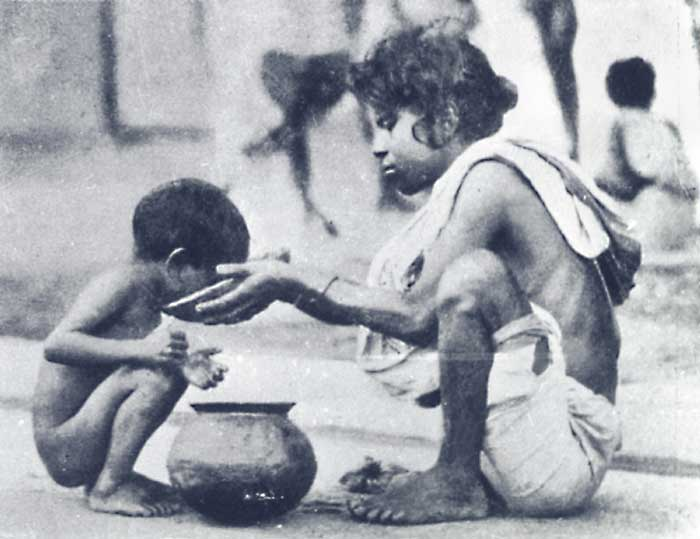 Bengal famine photo!